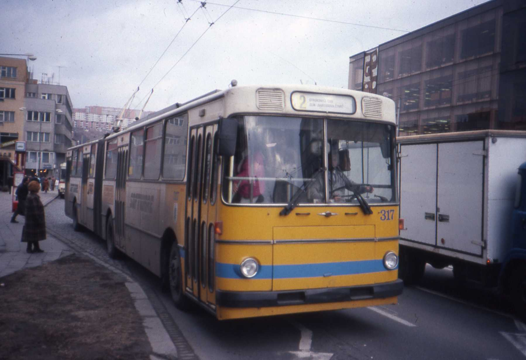 Škoda-Sanos S 200Tr trolleybus in Zlín, Czech Republic, 1992